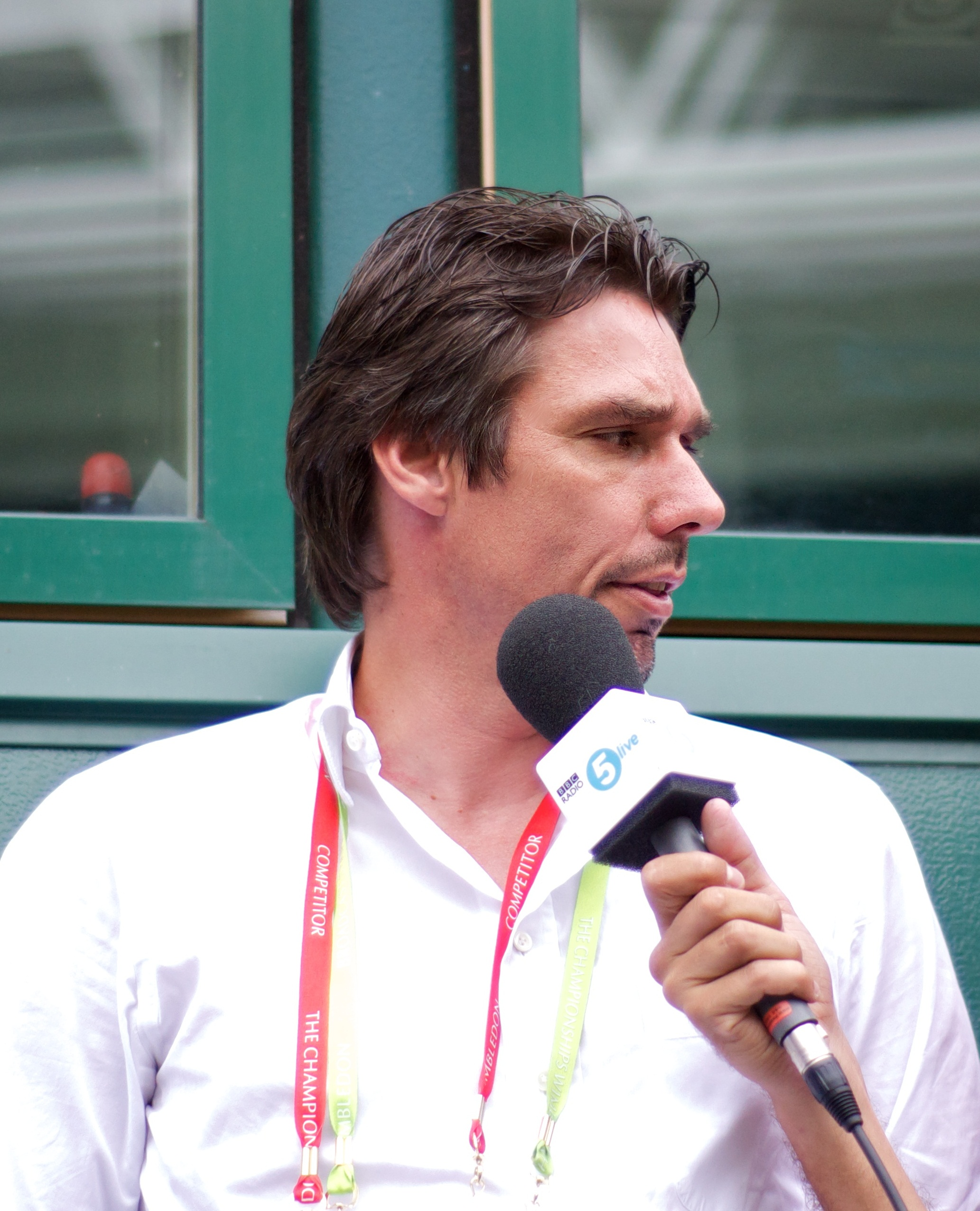 Michael Stich interviewed during Wimbledon 2010